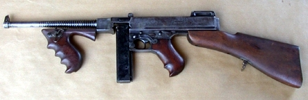 Colt-Thompson Submachine Gun Model of 1921